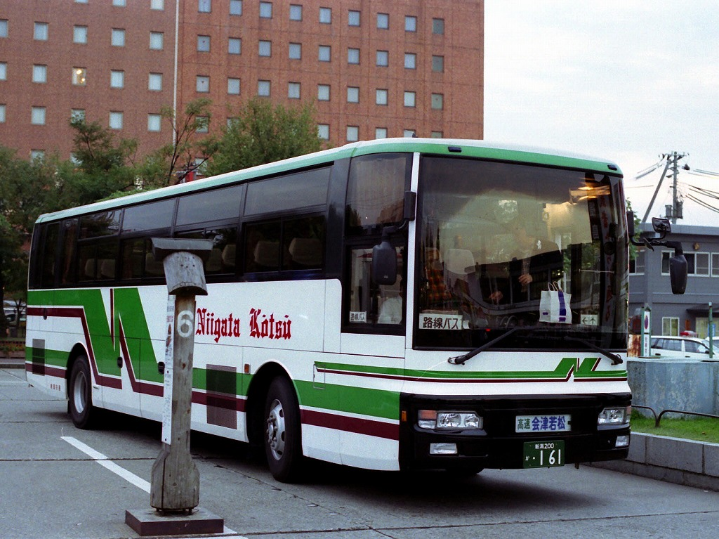 Niigata kotsu Highwaybus "Niigata-AizuWakamatsu"